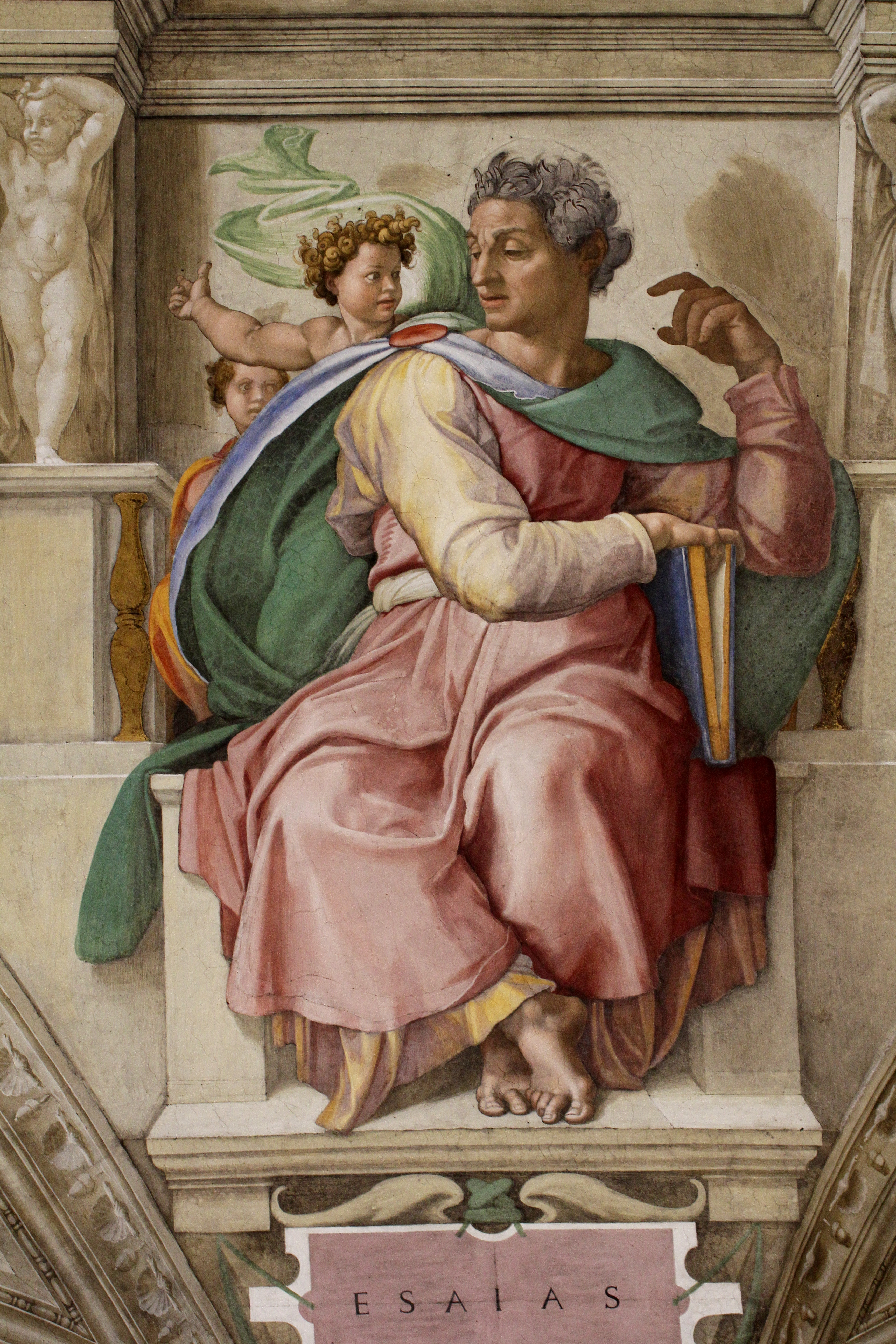 The prophet Isaiah, fresco painted by Michelangelo (1475-1564), Sistine Chapel Ceiling (1508-1512) Rome, Vatican